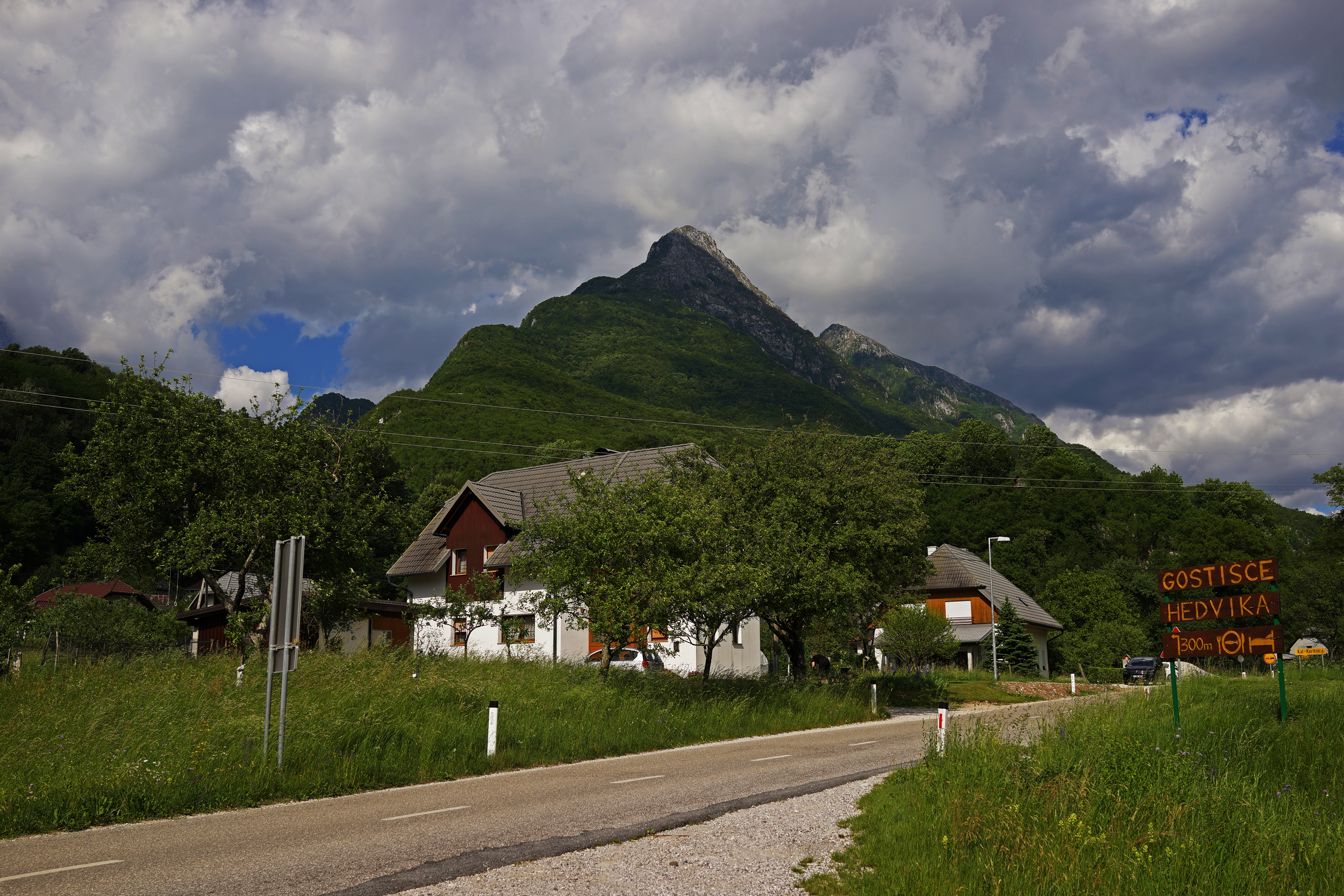 Svinjak mountain in Julian Alps (Triglav National Park) as seen from Kal-koritnica village.